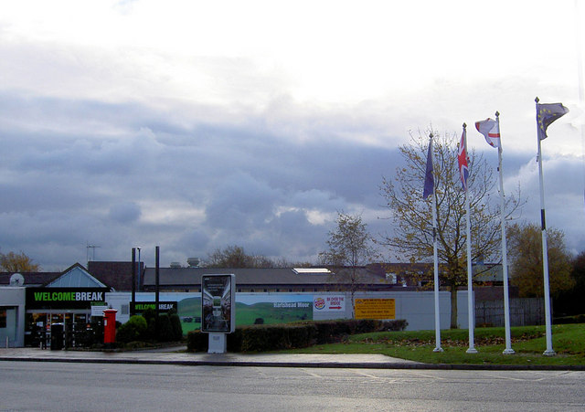 Hartshead Moor Services M62 motorway Westbound